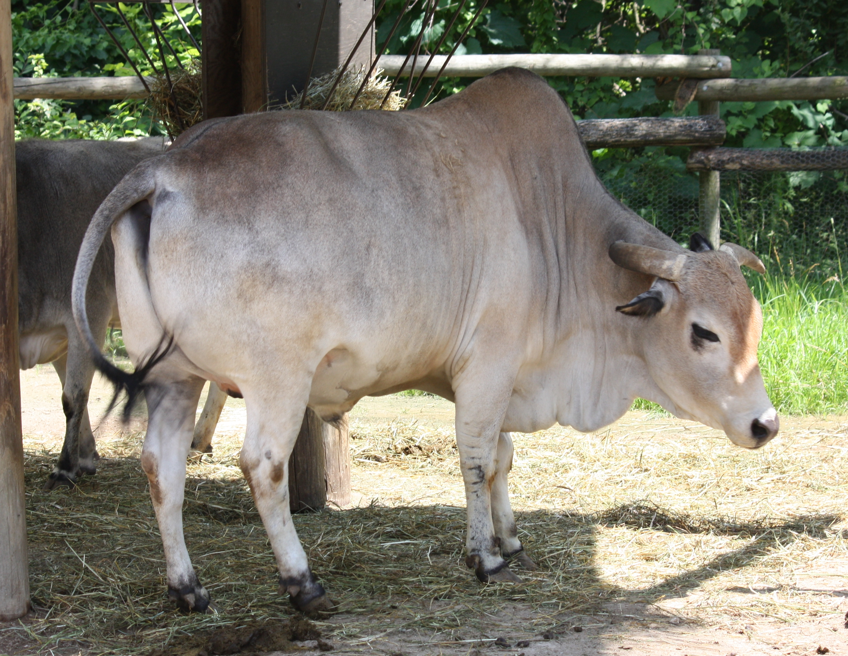 Zebu Cattle Bos taurus indicus at Binder Park Zoo in Battle Creek, Michigan